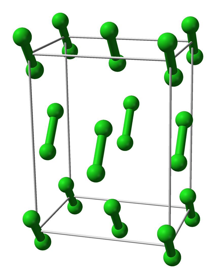 Ball-and-stick model of the unit cell of chlorine. Crystal structure data from Wyckoff (1963) Crystal Structures - Second Edition, Volume 1. John Wiley, New York. Image generated in Accelrys DS Visualizer.